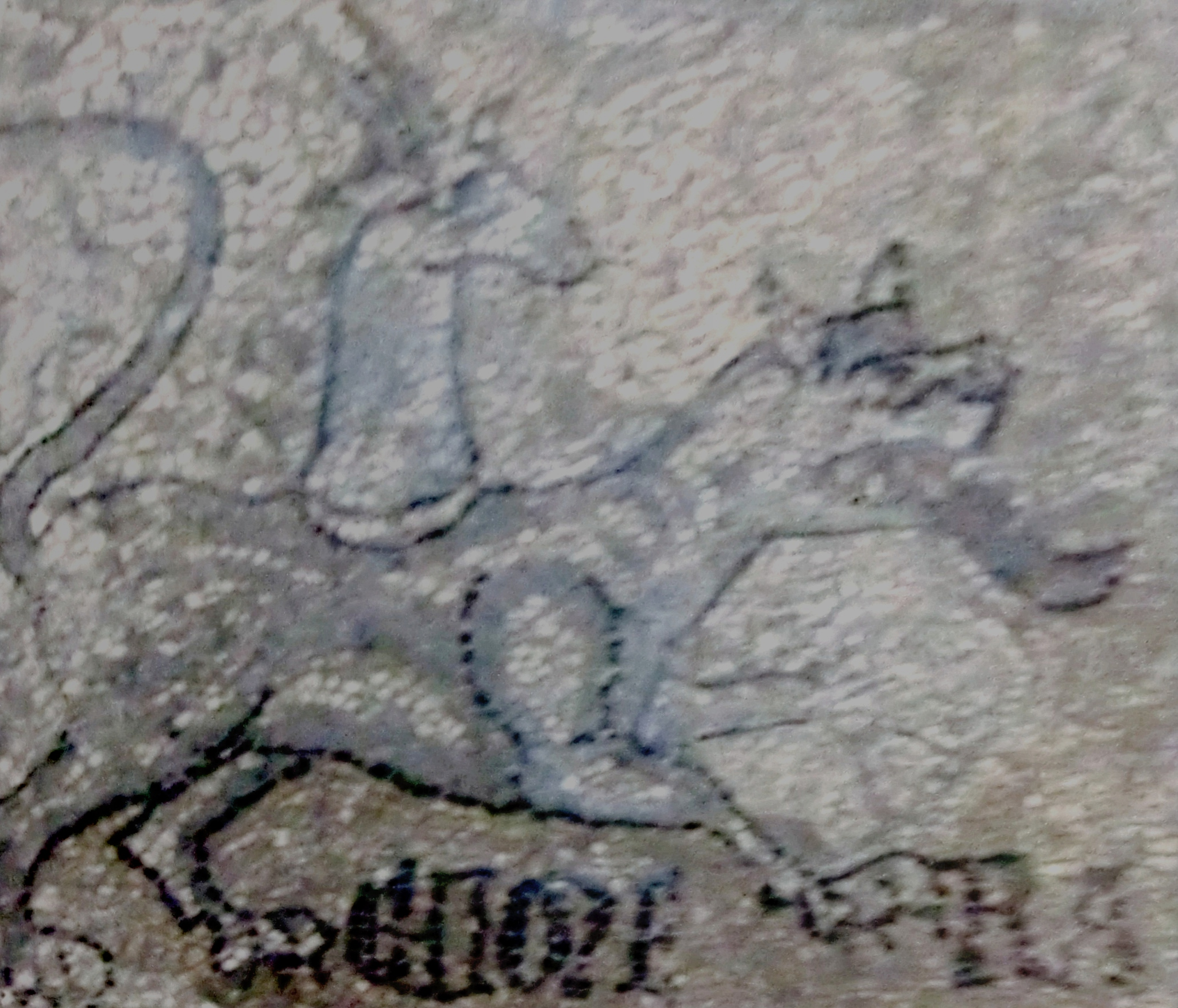 Aosta, Cathedral, Mosaic of the choir, detail of the Chimera, beginning of the thirteenth century